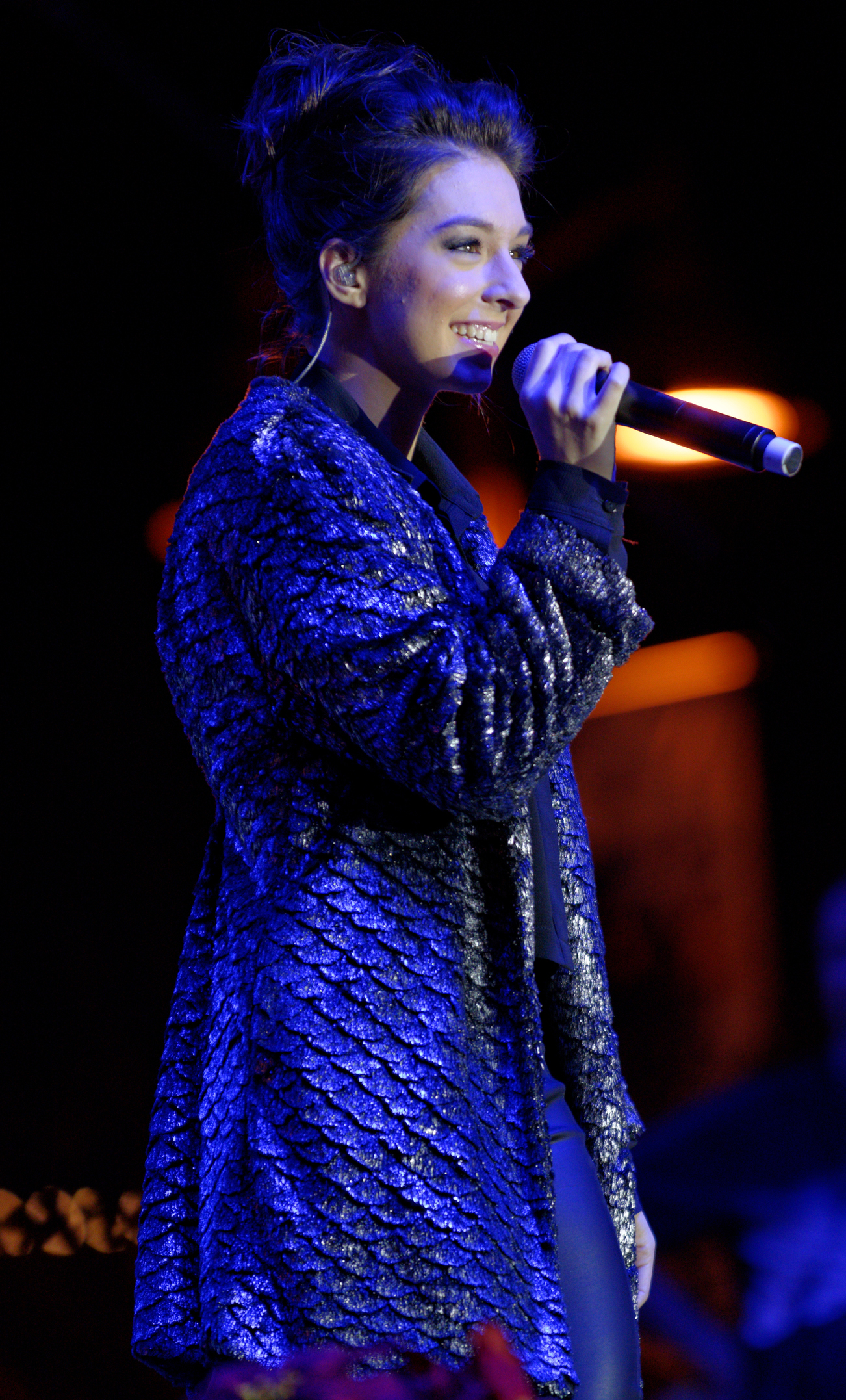 Christina Grimmie performing at the Citadel Tree Lighting in 2014